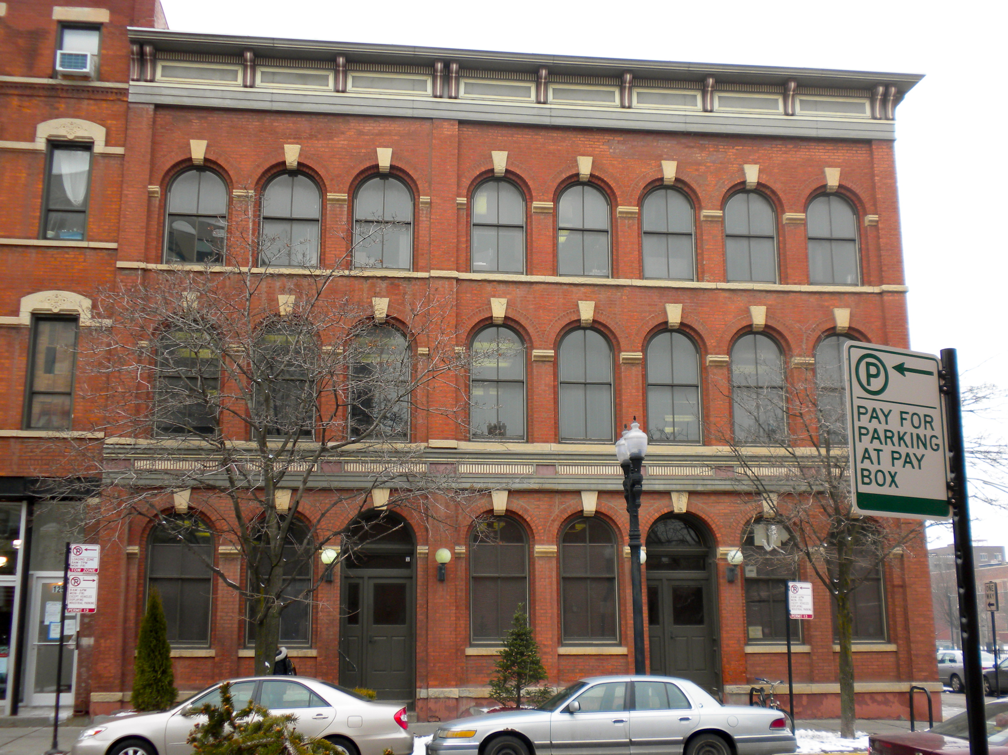 1244 N. Wells St., Chicago, formerly a fire house. Part of North Wells Street Historic District since May 3, 1984. HD includes 1240-1260 N. Wells Street on Near North Side